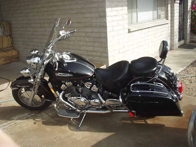 1997 Yamaha Royal Star Tourdeluxe